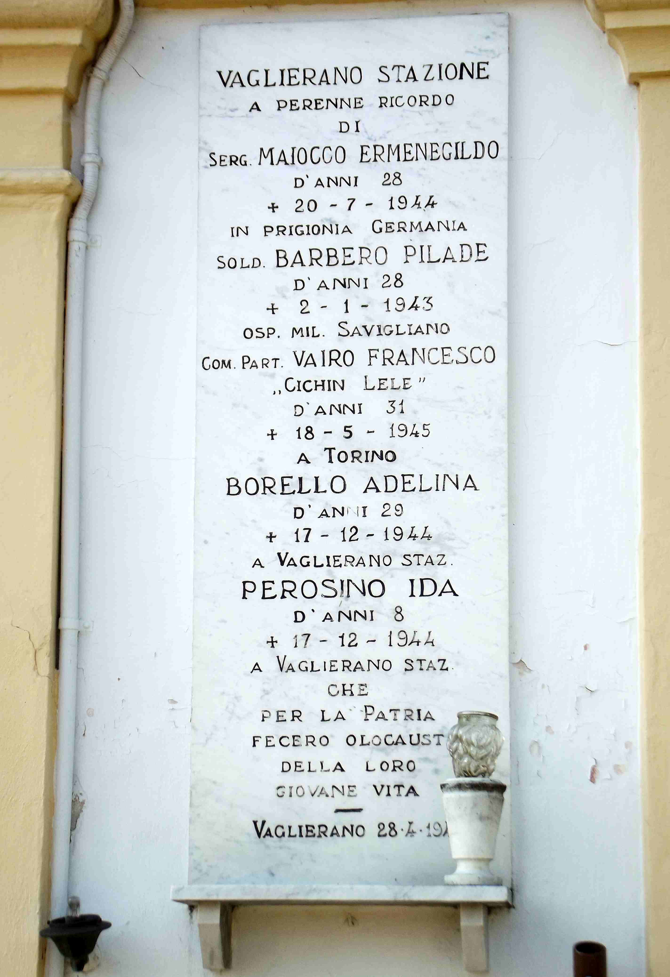 Vaglierano (Asti, Italy): war mamorial tablet